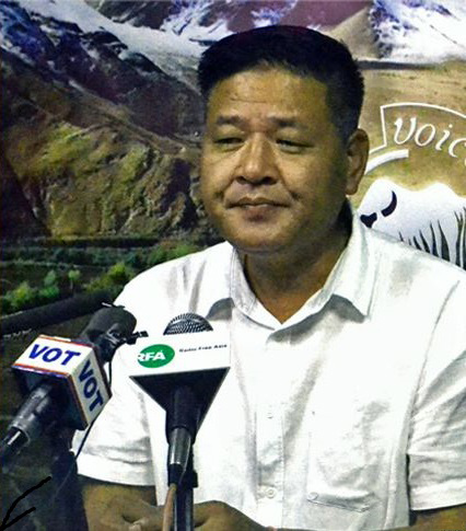 Lukar Jam and Penpa Tsering.